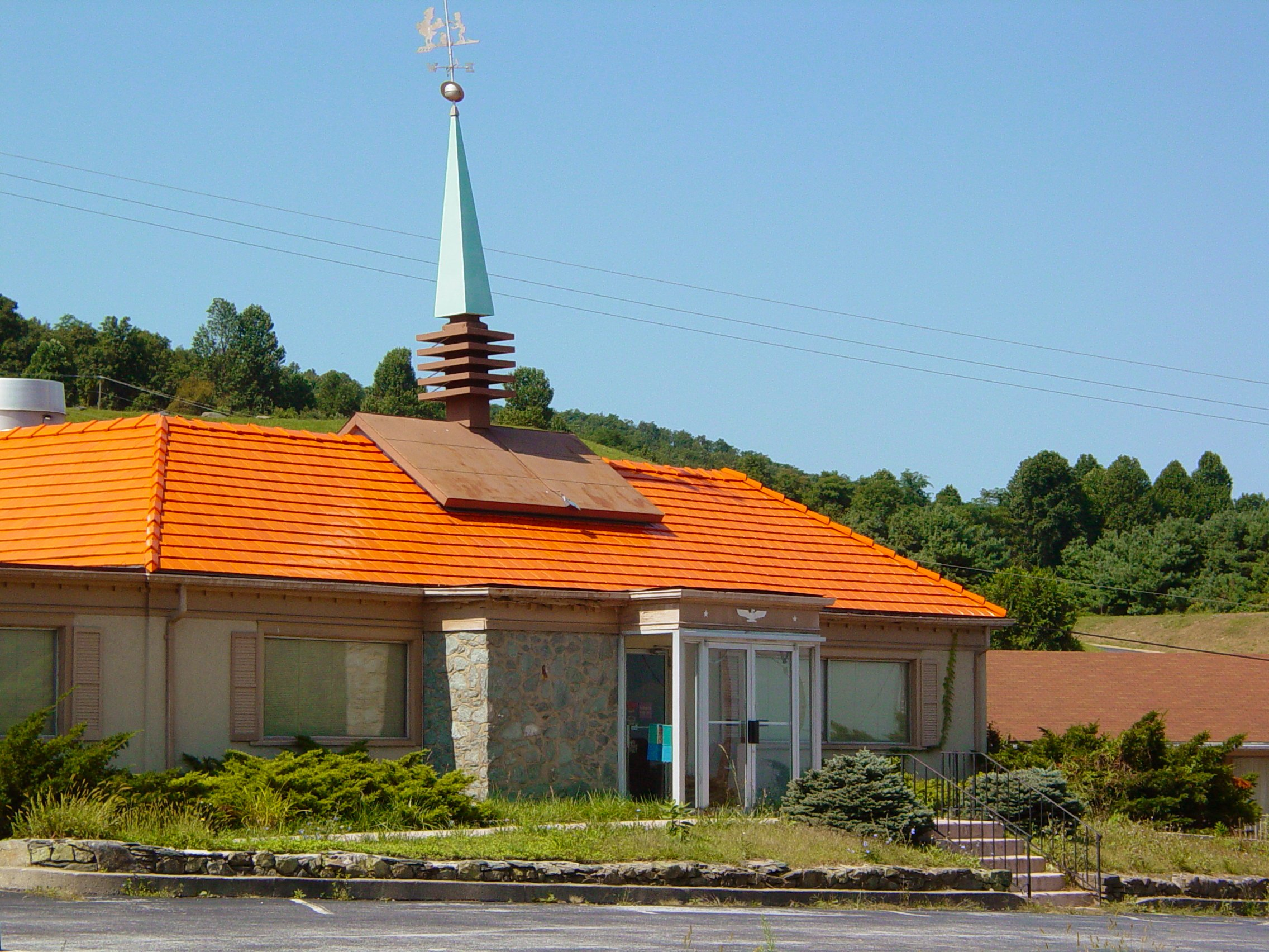 Howard Johnson's restaurant on Afton Mountain, near Waynesboro, Virginia.